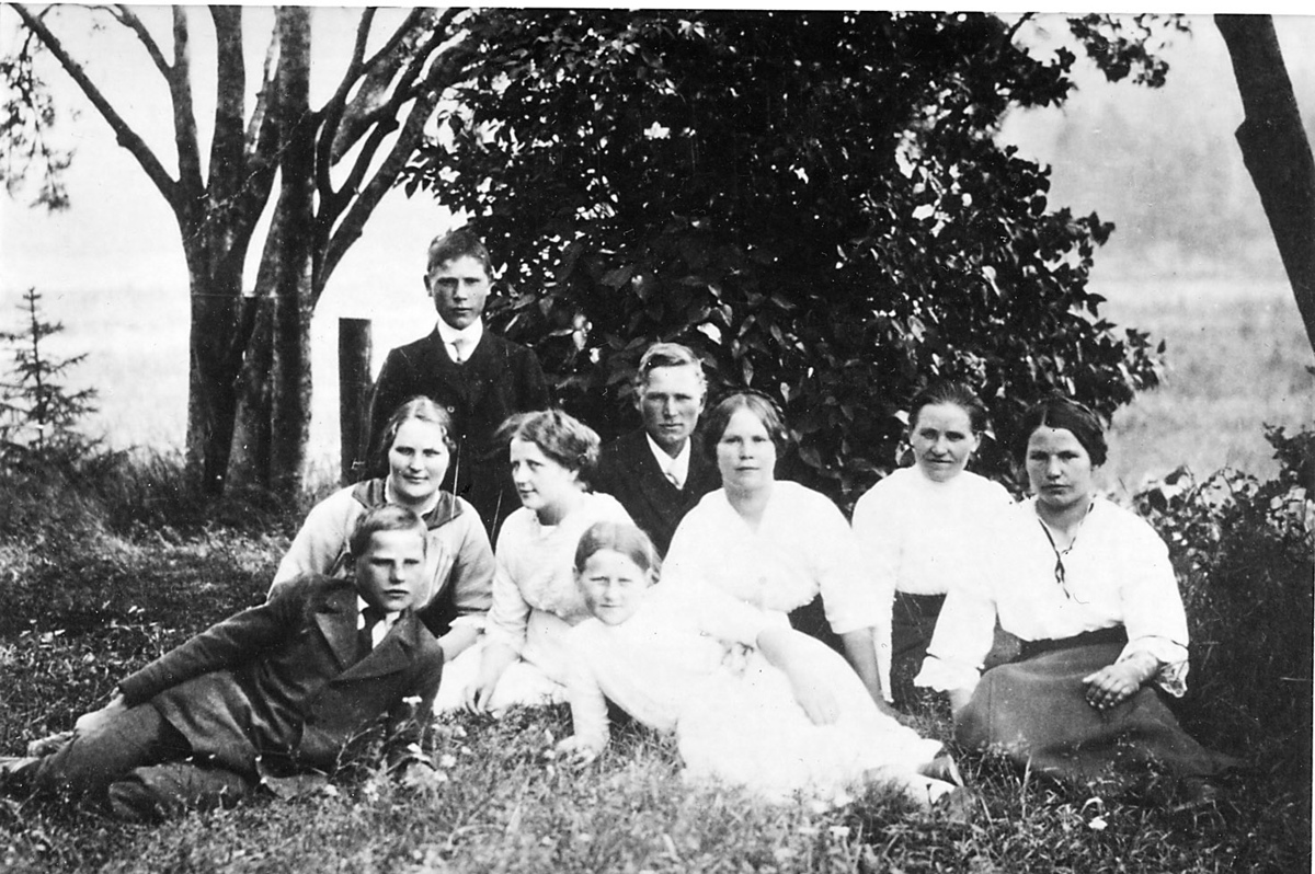 Fallström siblings together with neighbourhood children in 1914 at Fallbacka farm. From right Edit, Amanda, Ester, Aksel. Standing behind Teodor. To the left front Hilma in front of whom is lying Lennart.